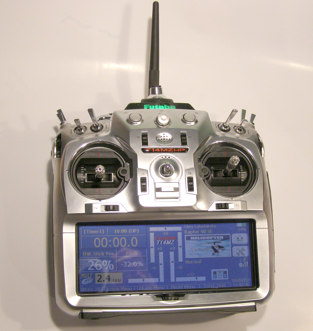 Futaba T14 MZHP RC transmiter